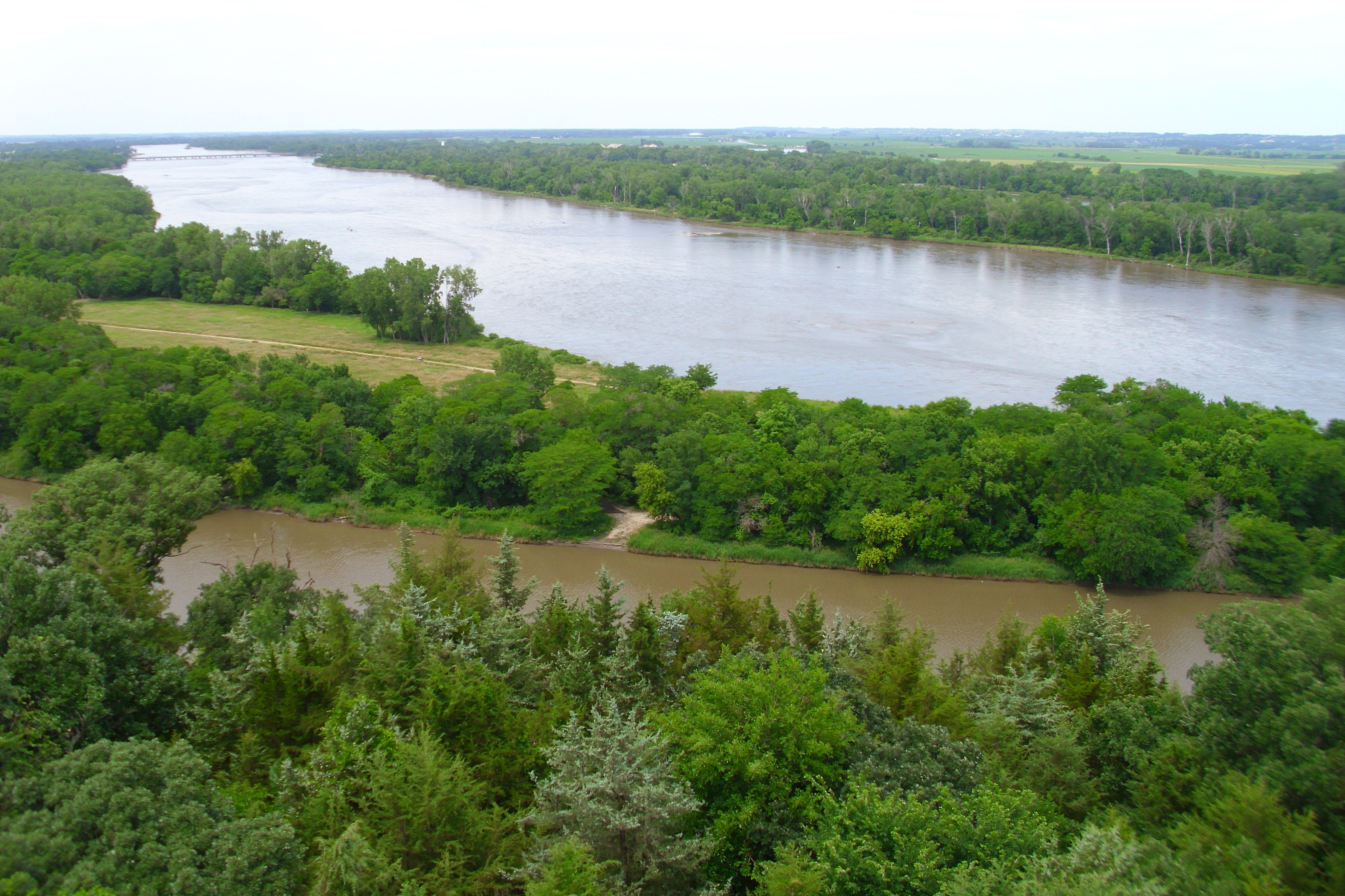 View of the Platte River from the Walter Scott Jr. Observation Tower at the Eugene T. Mahoney State Park.